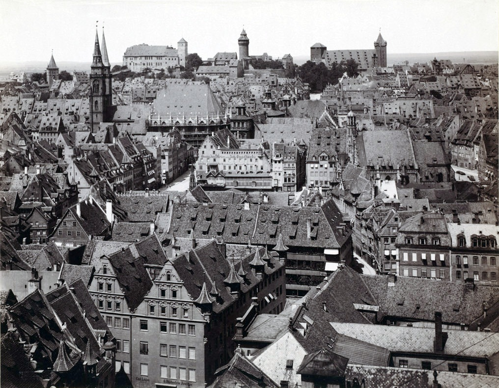 BPLDC no.: 08_04_000306 Page Title: Nuremberg Collection: Tupper Scrapbooks Collection Album: Volume 36: The Rhine. Heidelberg. Nuremberg. Call no.: 4098B.104 v36 (p. 26) Creator: Tupper, William Vaughn Photographer: Genre: Scrapbooks; Albumen prints Extent: 1 photographic print mounted on page : albumen ; page 33 x 39 cm. Description: Scrapbook page features one photograph of an aerial view of Nuremberg. Transcription: Notes: Page title and description supplied by cataloger, derived from captions and/or annotated information. BPL Department: Print Department Rights: No known restrictions.